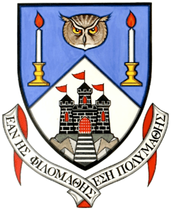 The Diagnostic Society of Edinburgh Coat of Arms